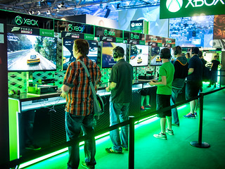 Gamers playing Forza Horizon 2 at Gamescom 2014